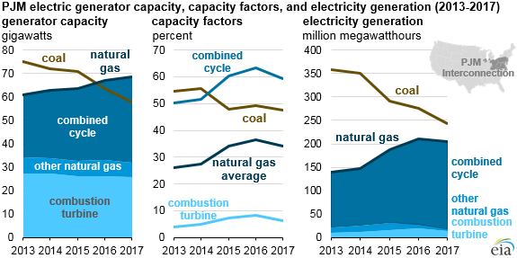 Average annual capacity factors for natural gas-fired combined-cycle generators in PJM first surpassed those of coal-fired generators in 2015. October 17, 2018